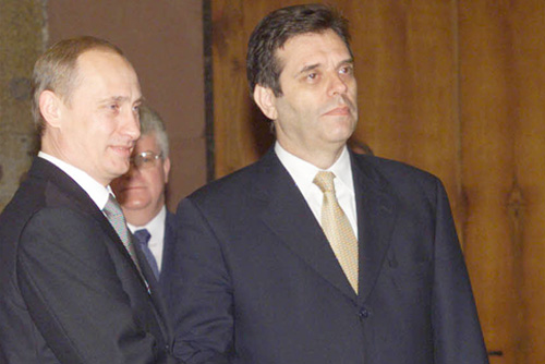 BELGRADE. President Putin with President Vojislav Kostunica of Yugoslavia.